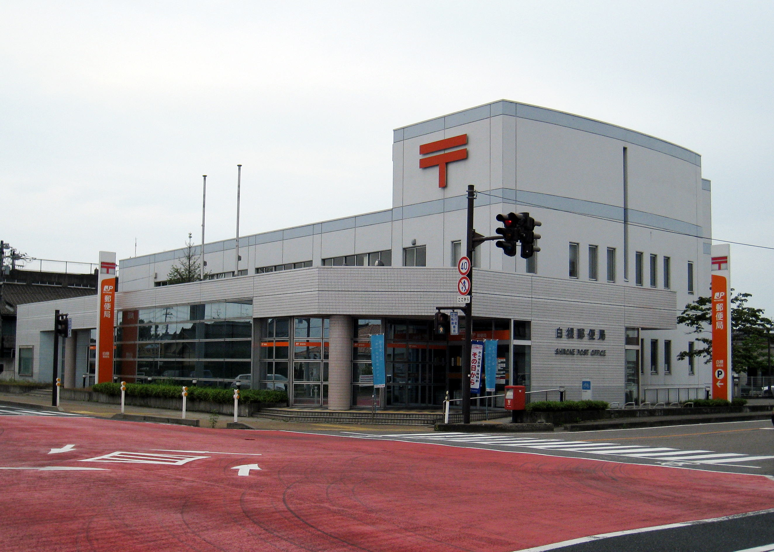 Shirane postoffice. Minami-ku, Niigata-shi, Japan.